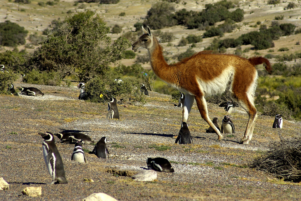 Penguins and Guanaco in Punta Tombo, Chubut, Patagonia Argentina